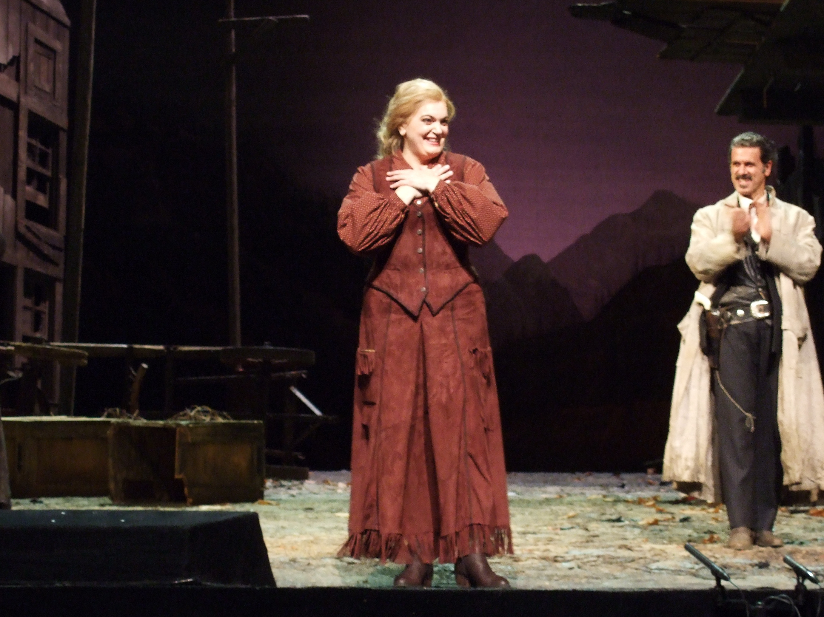 Description on flickr: Elisabete Matos (Minnie), Lucio Gallo (Jack Rance) Puccini's opera La fanciulla del West, Metropolitan Opera December 22, 2010 Broadcast live on Sirius and XM Metropolitan Opera Radio Metropolitan Opera debut performance for Elisabete Matos